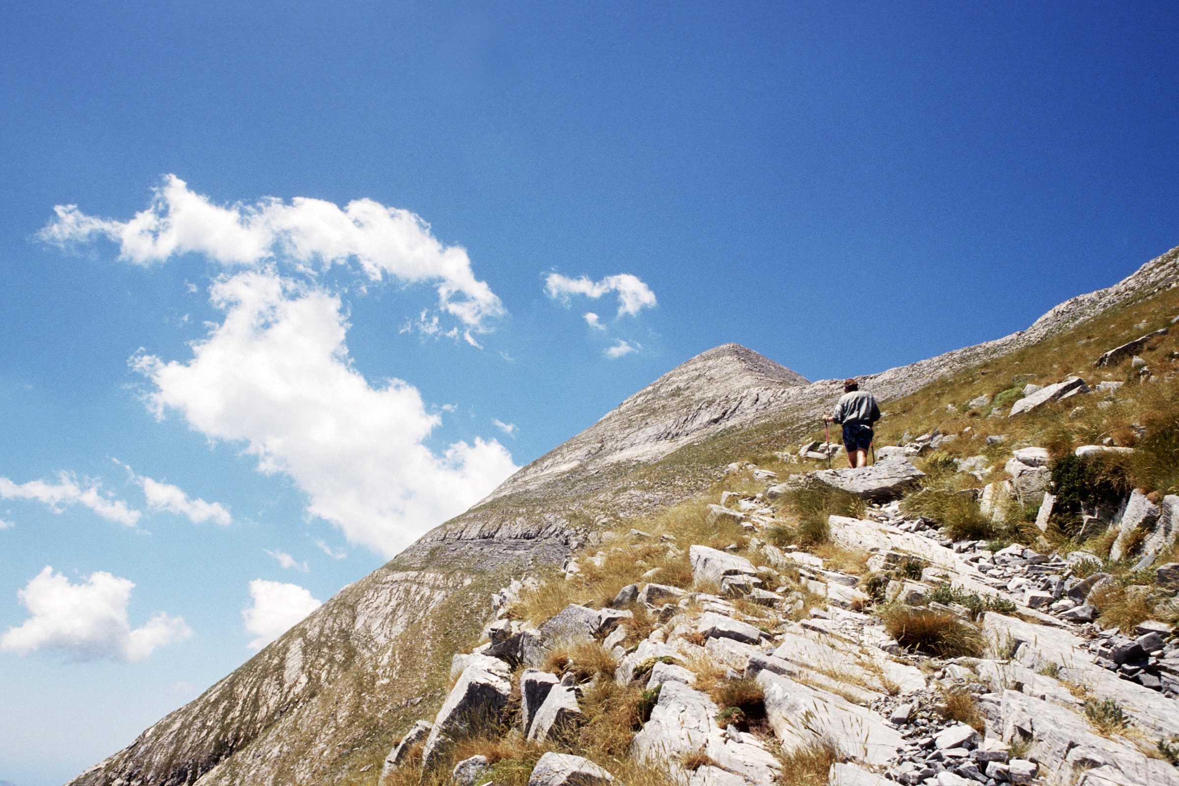 Approaching the pyramid shaped peak of Profitis Ilias, 2.407 meters above sea level.